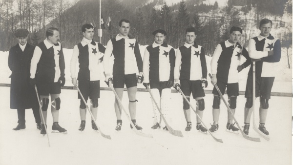 Hockey team Slavie Praha at the 1912 Coupe de Chamonix.